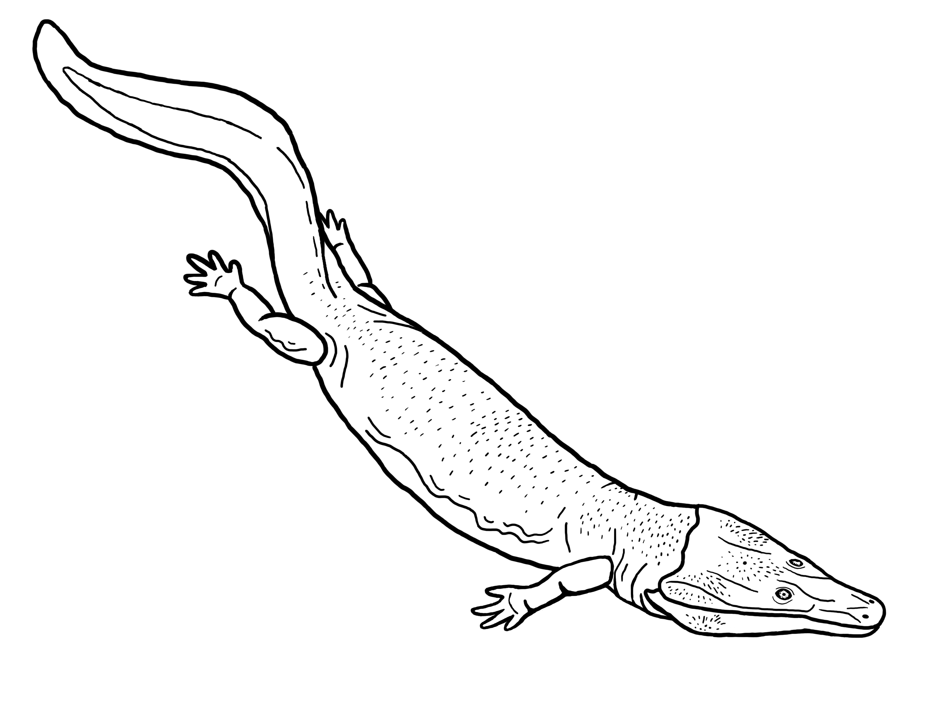 Life restoration of Neldasaurus wrightae. Based on figures in "Neldasaurus wrightae, a new rhachitomous labyrinthodont from the Texas Lower Permian" by John Newland Chase (Bulletin of the Museum of Comparative Zoology 133(3): 153-225).